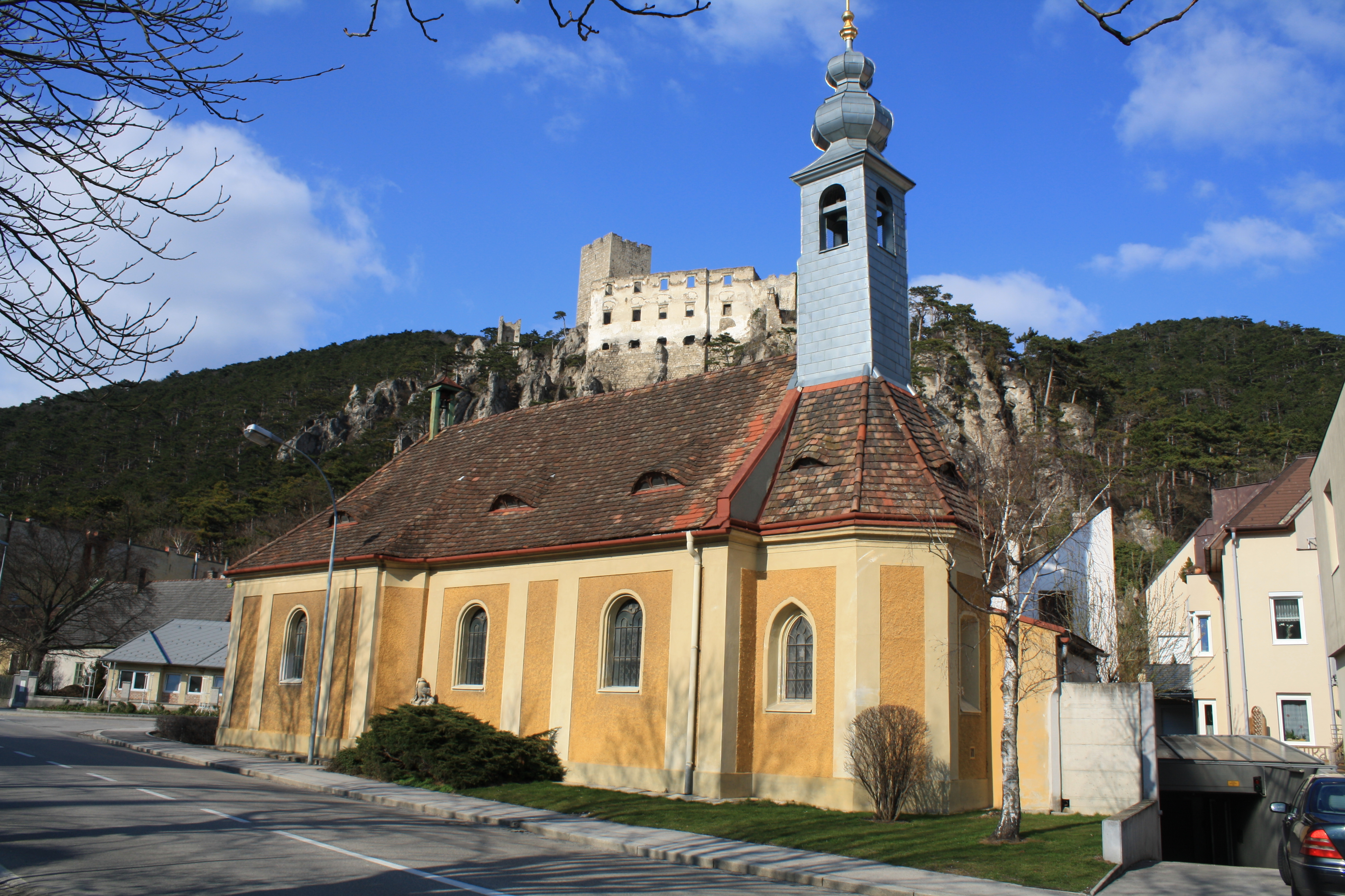 Church St Helena in Baden Lower Austria, castle of Rauhenstein in the background